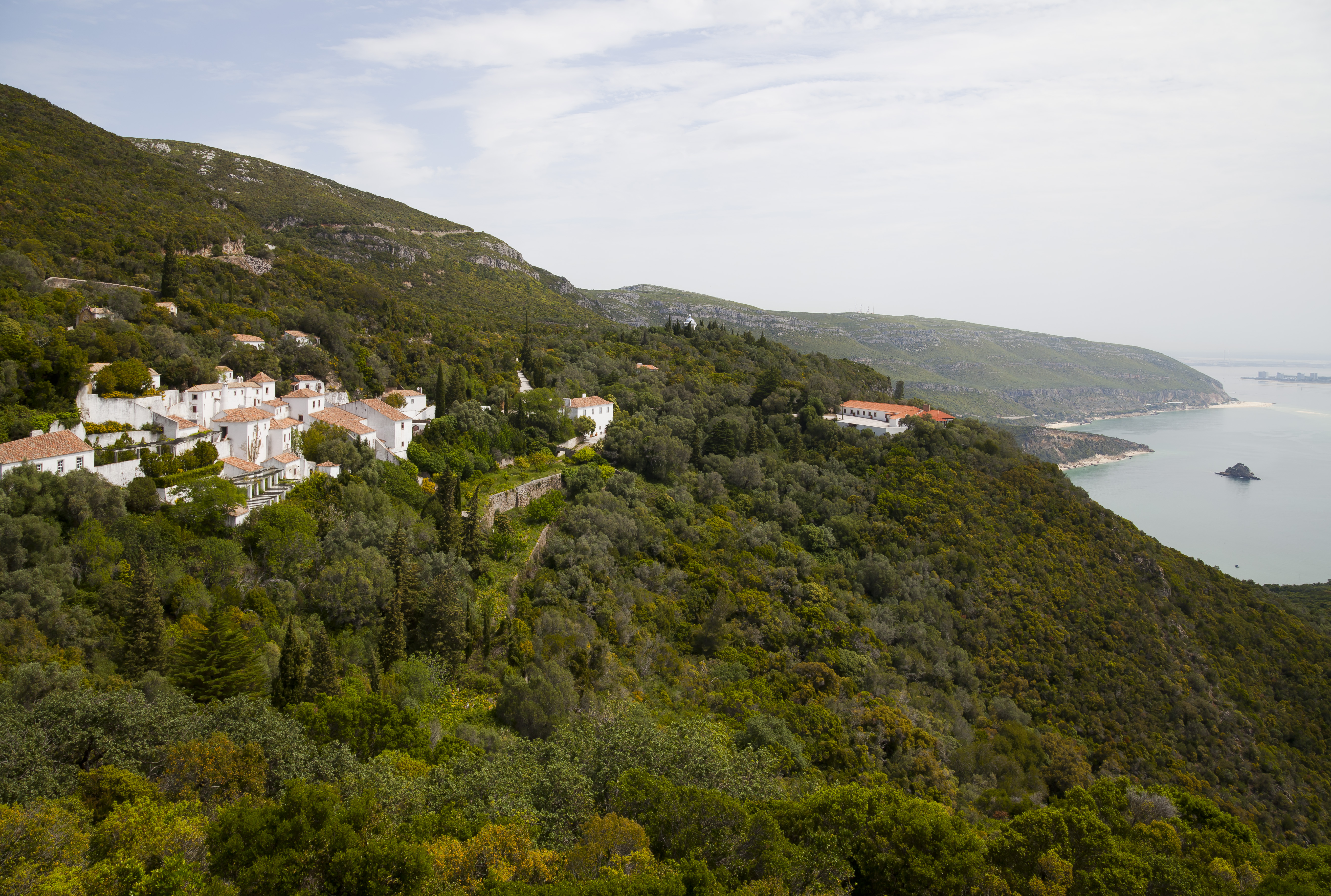 Natural Park of Arrabida, Setubal, Portugal